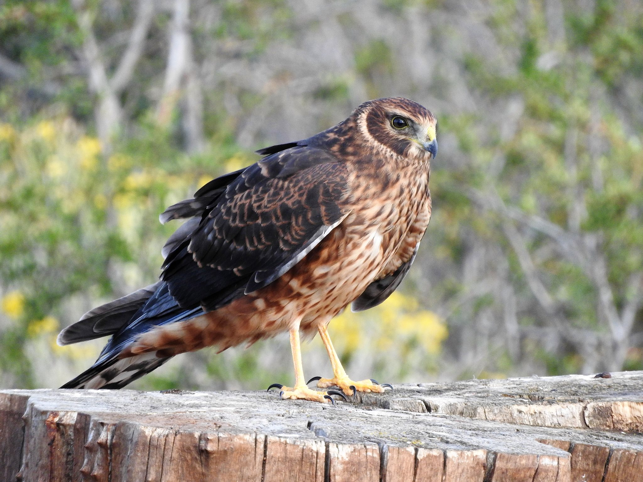 Circus cinereus, also known as "Cinerous harrier" in Lake Nimez, El Calafate, Santa Cruz province